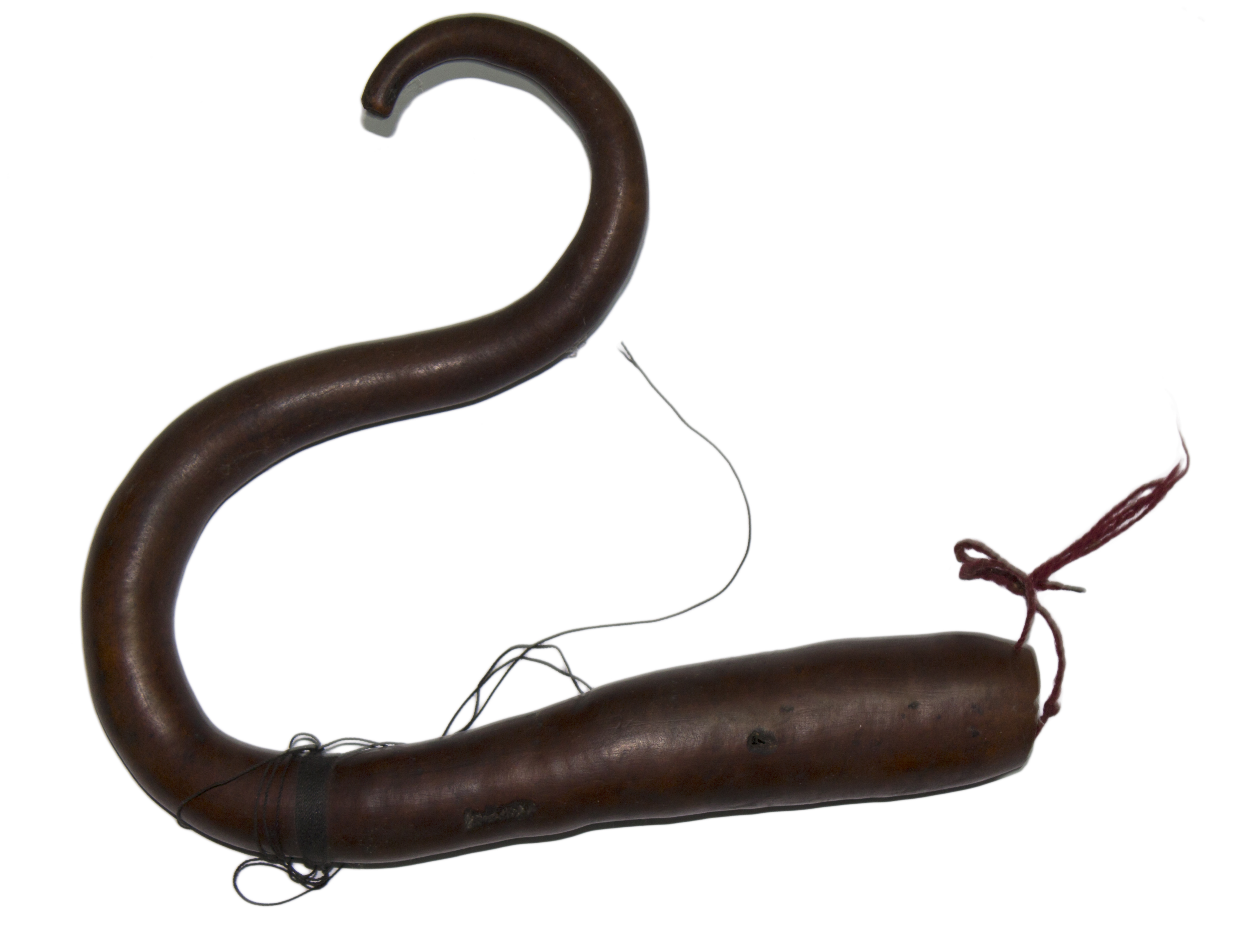 Own koteka, photographed on white paper, with background digitally removed.